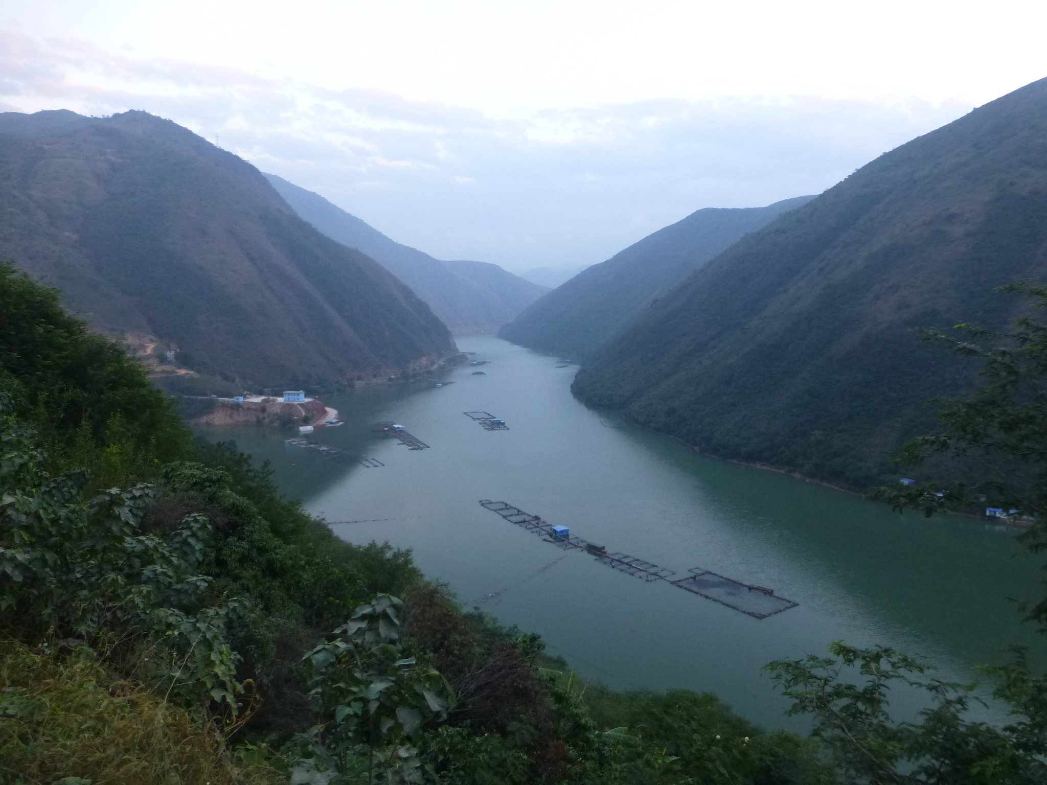 A view of the Nansha Reservoir on the Red River from Yunnan Route 214, as it approaches the reservoir's shore.